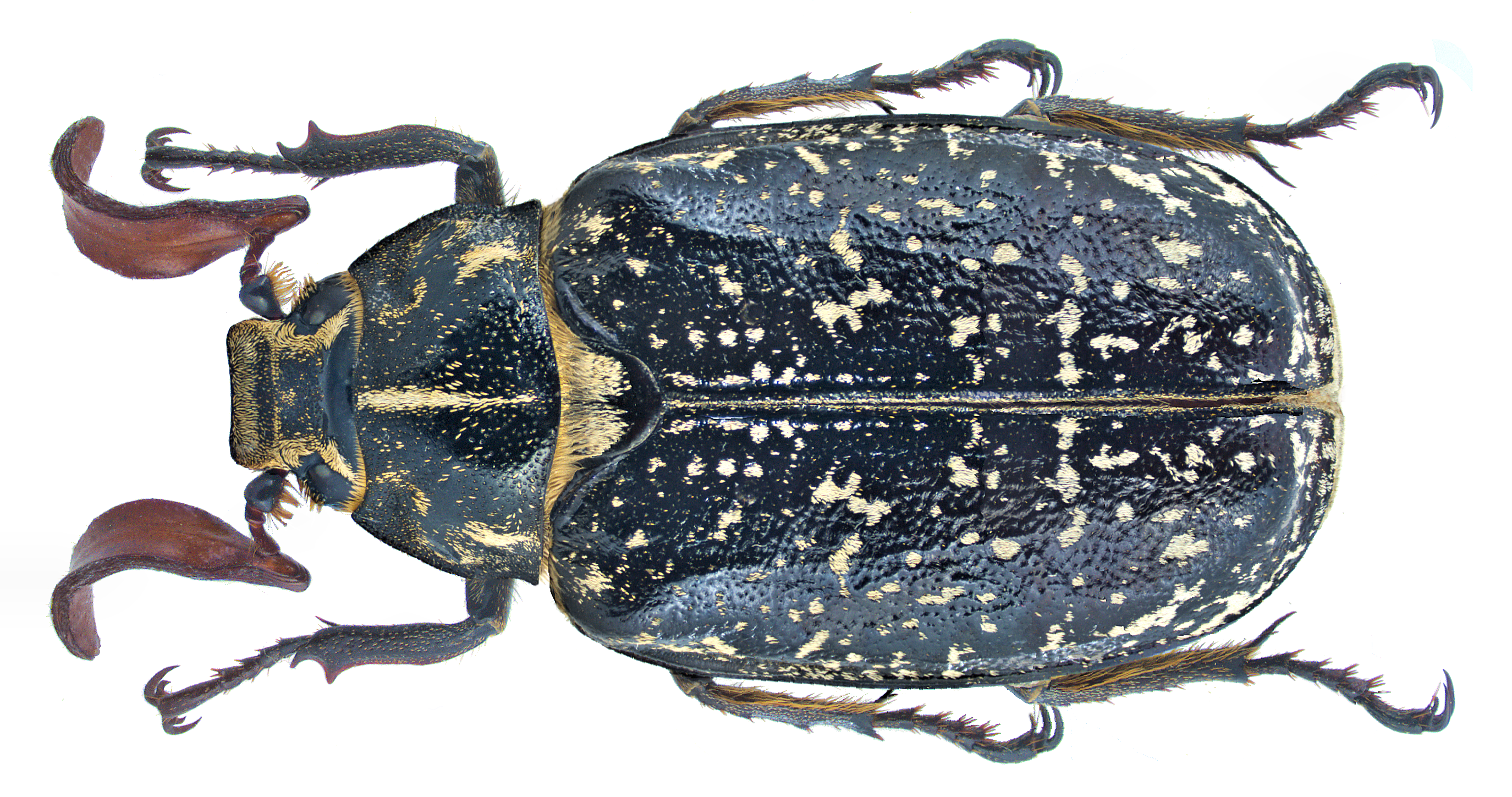 Family: Scarabaeidae (Melolonthidae) Size: 32 mm (25 to 36 mm) Origin: Europe, North Africa Location: Greece, Thasos, Potos leg. W.Roedel, 30.V.1975; det. U.Schmidt, 1975 Photo: U.Schmidt, 2015